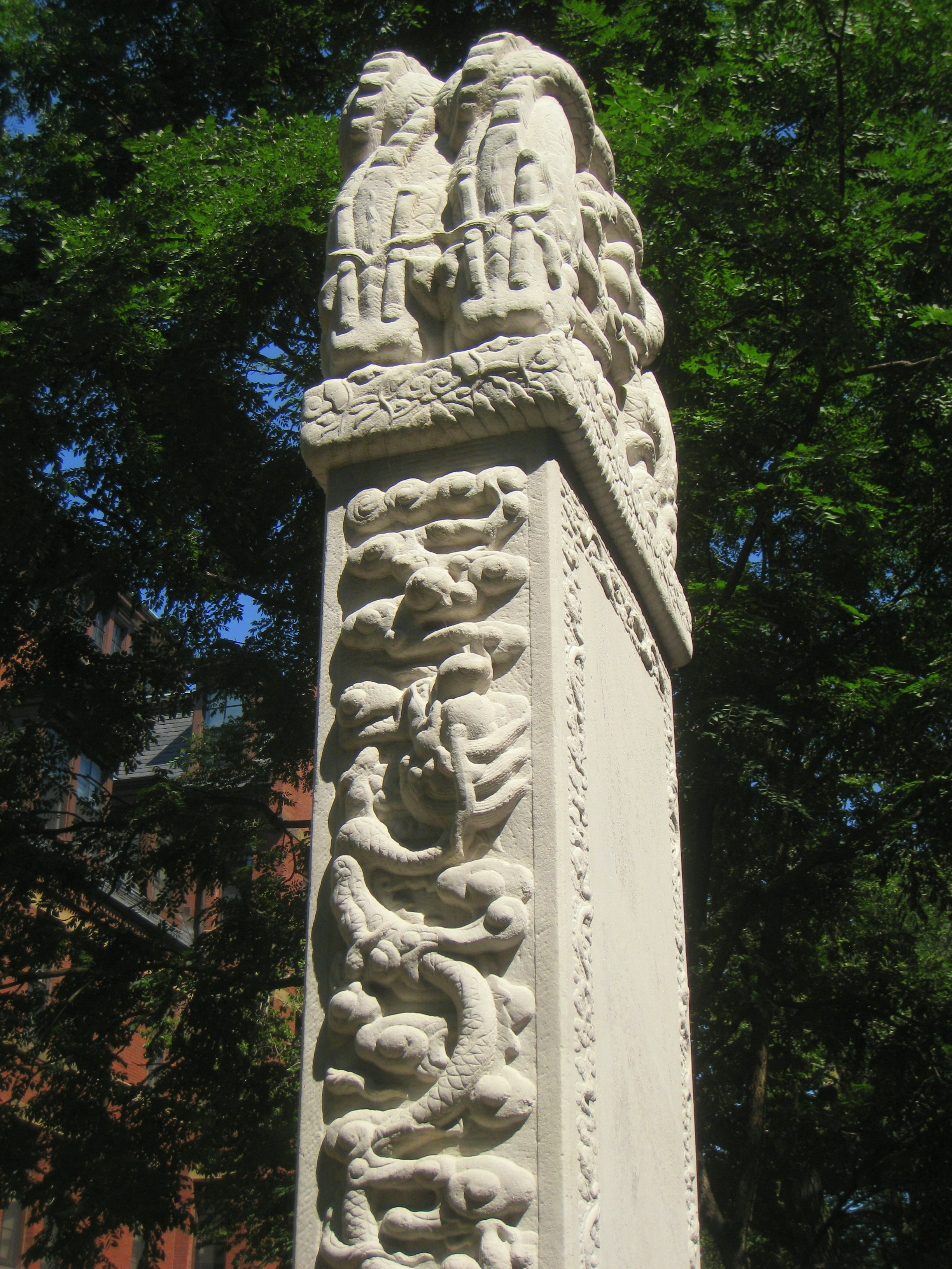 Bixi in Harvard University, Cambridge, Massachusetts, USA.